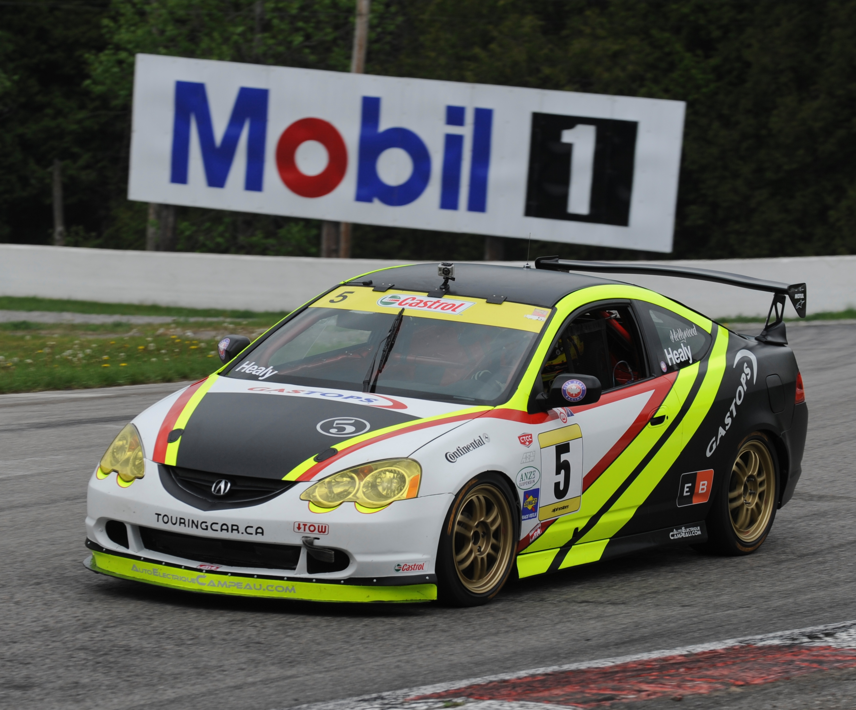 Alex Healy Mosport